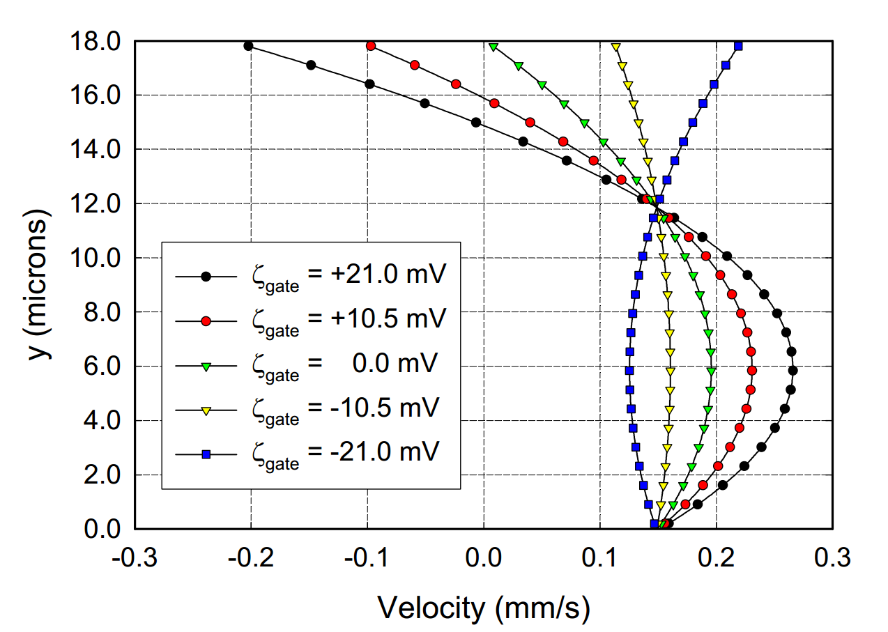 This is a graph of the flow velocity profile across a microfluidic channel as a function of differing applied voltage.